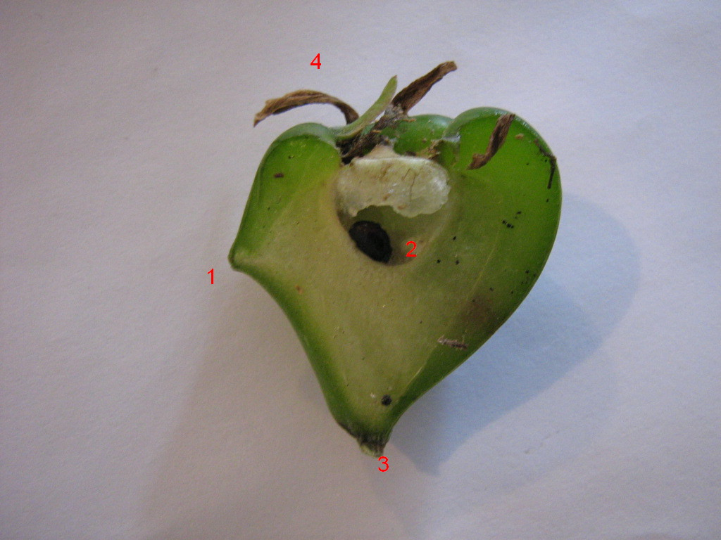 Pereskia fruit. Cross setion. 1. Areole, 2. Seed, 3 Rest of a pedicel, 4. Remainders of petals